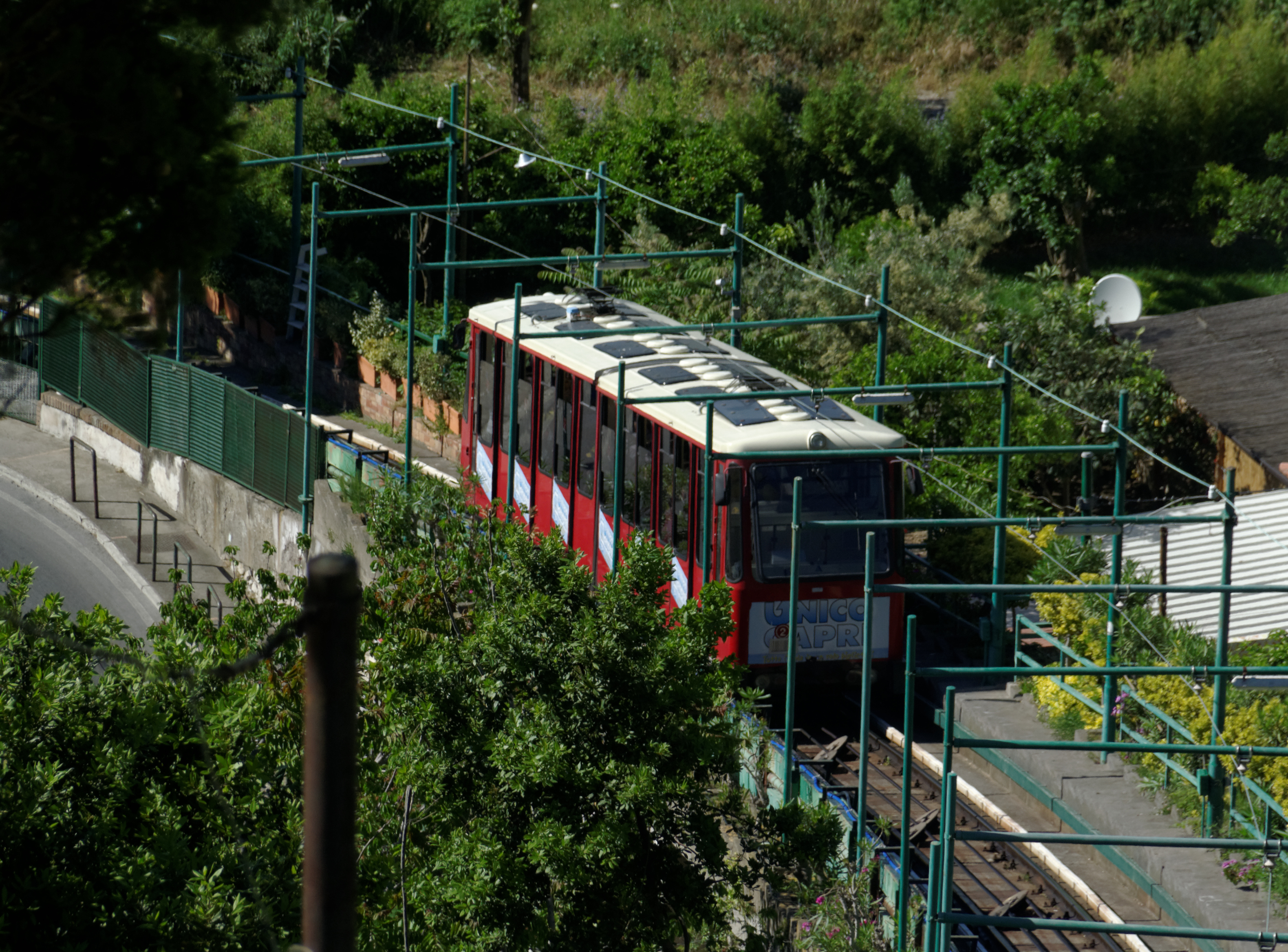 Capri, funicolar